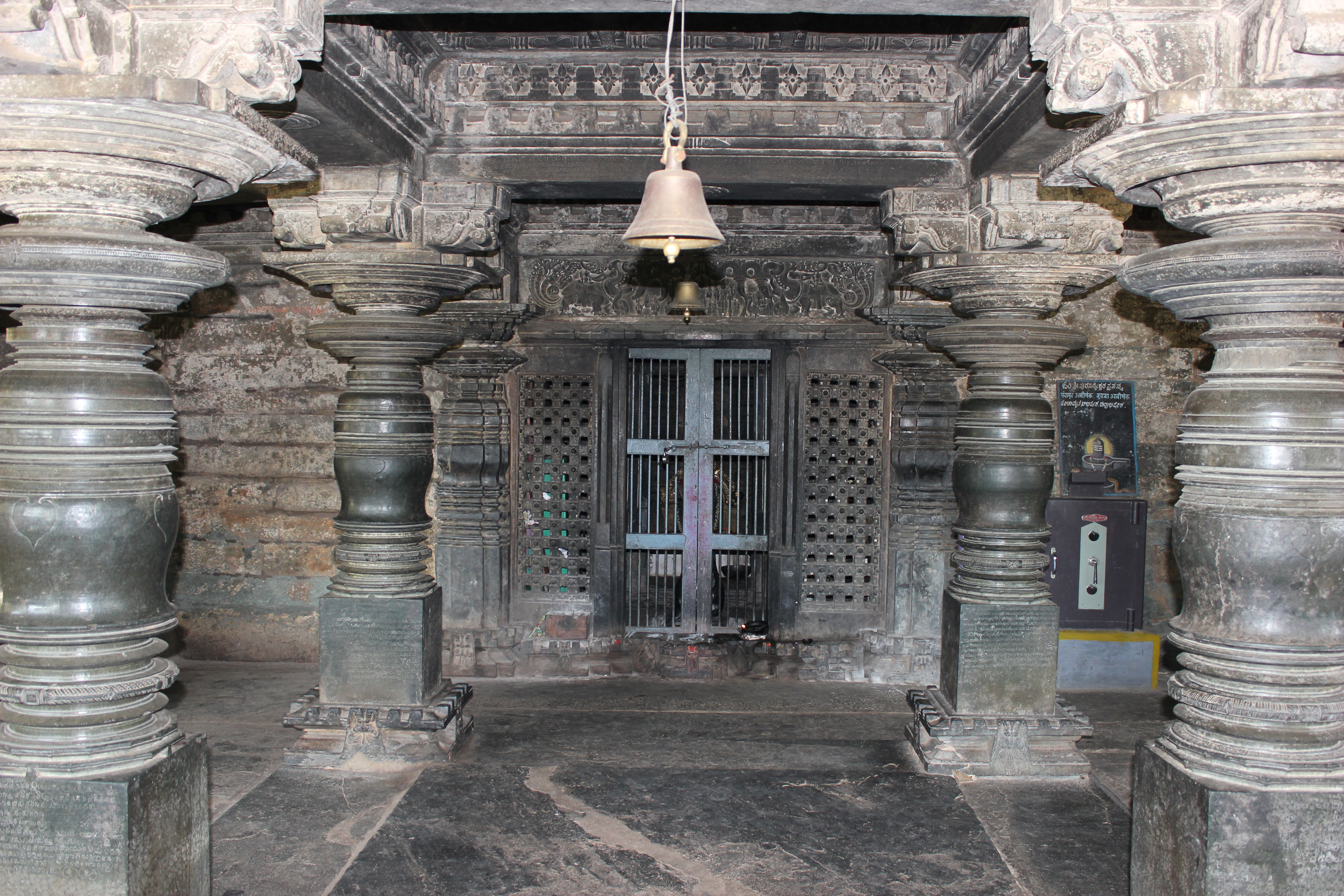 The Siddhesvara temple (also spelt Siddesvara or Siddheswara) was consecrated during the rule of the Kalyani (Western) Chalukya king Vikramaditya VI in the late 11th century and completed in the 12th century. Haveri is a town in the Haveri district of the Karnataka state, India.